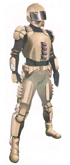 Future Soldier 2030.